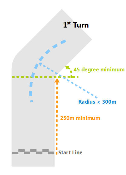 First turn as mandated by FIA